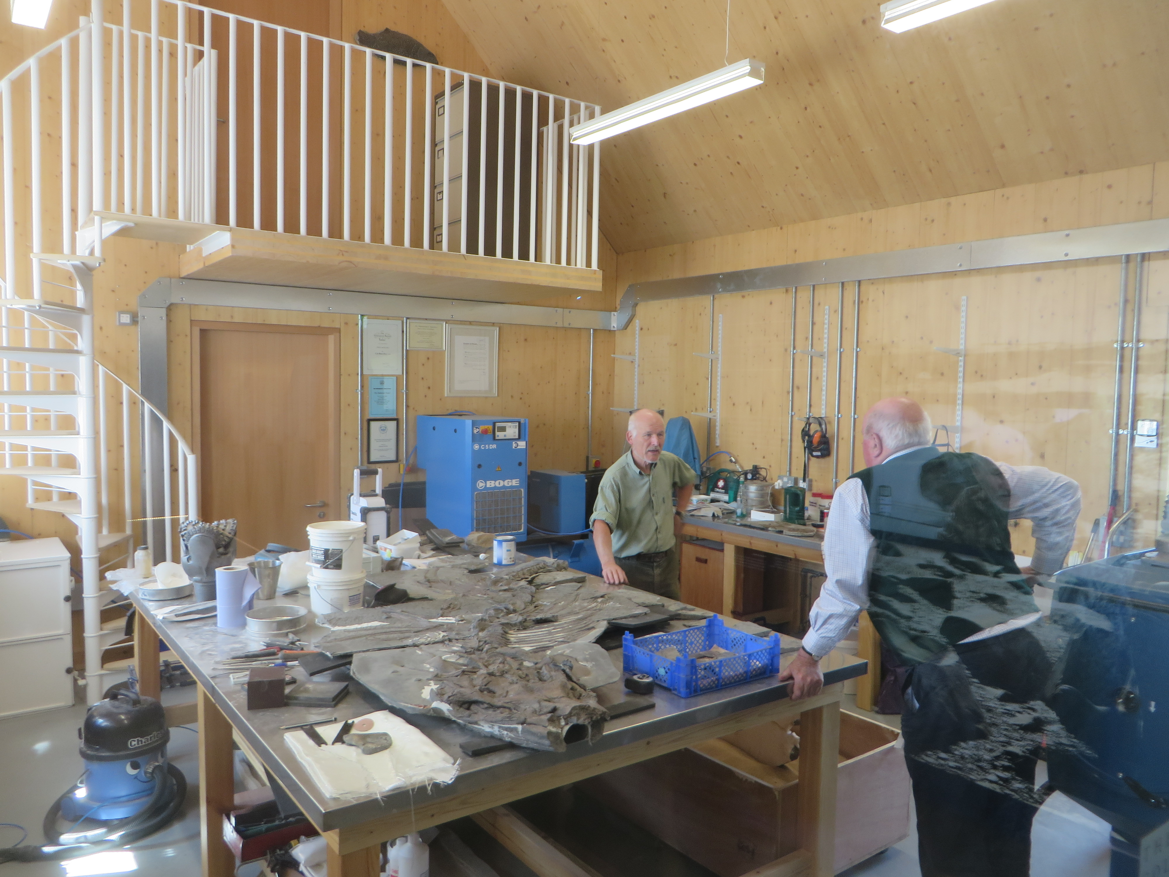 Steve Etches in the workshop, The Etches Collection, Kimmeridge, Purbeck, Dorset, England.